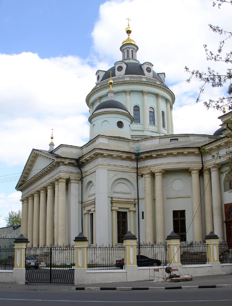 Church of St. Martin the Confessor, Moscow, 1793-1806, by Rodion Kazakov